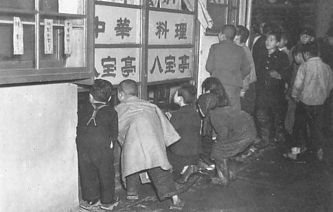 Tsukiji-Happotei Incident